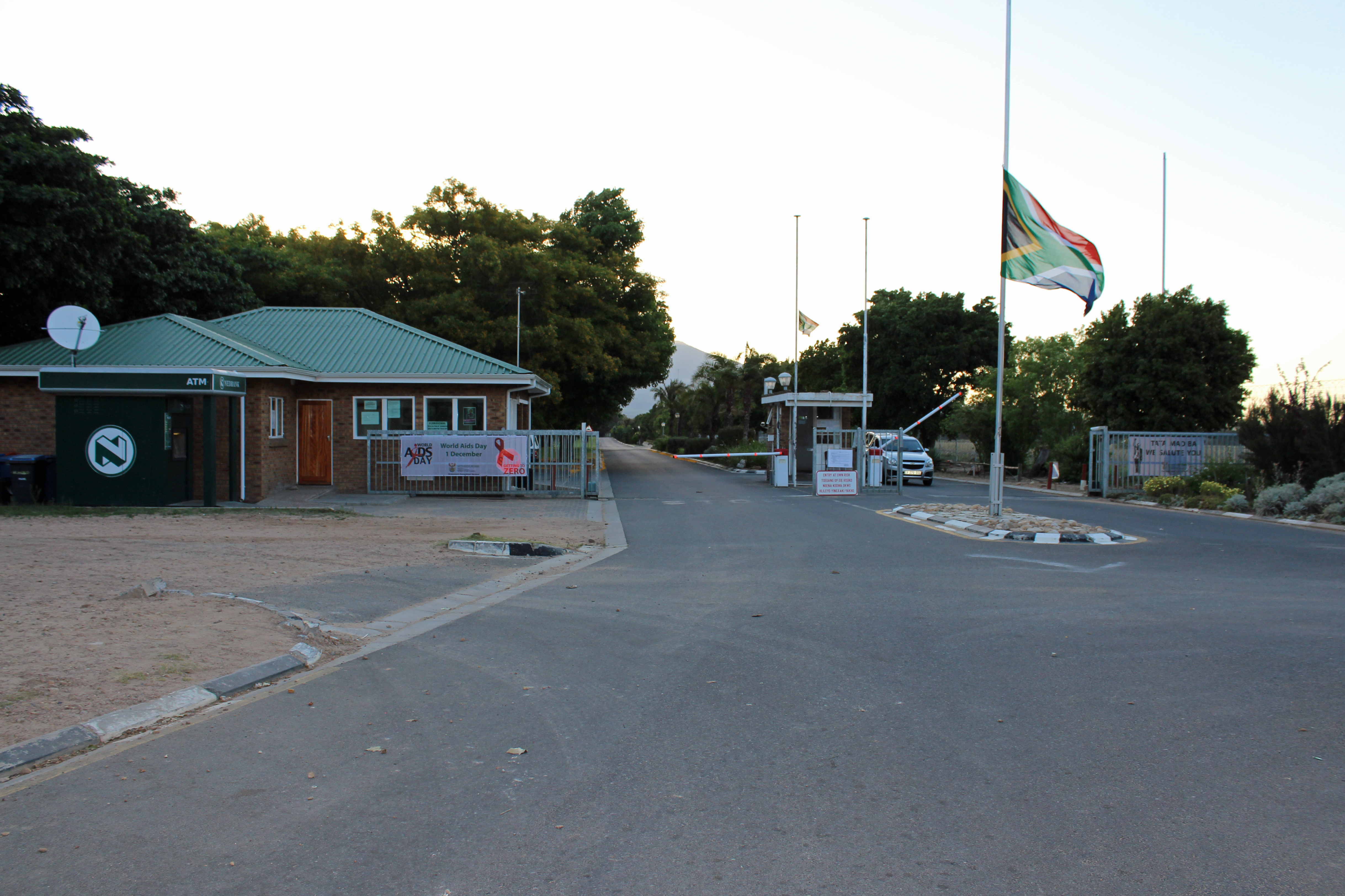 South African flag flying half-mast outside Drakenstein Correctional Centre during the national mourning period for Nelson Mandela.